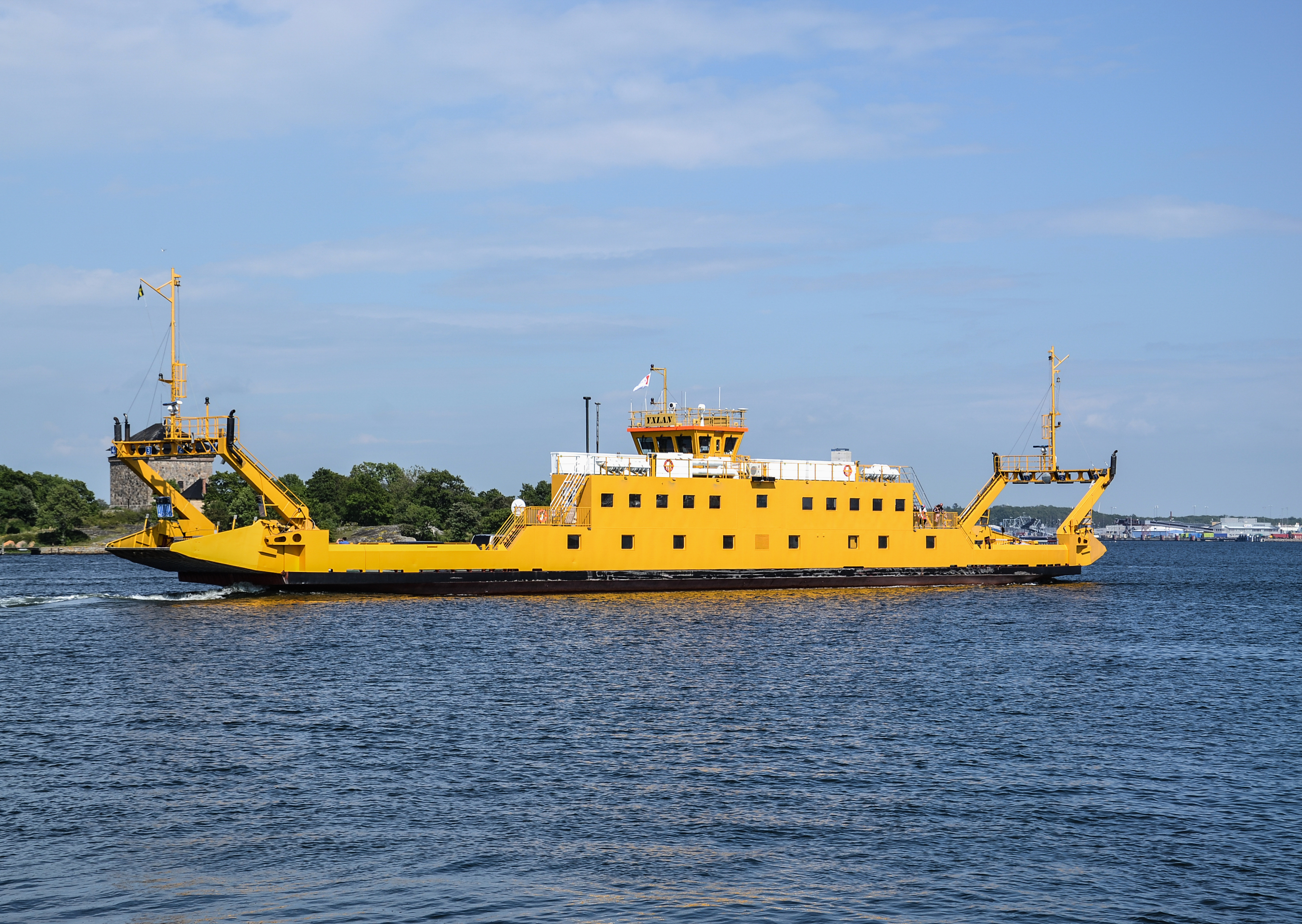 Ferry between Karlskrona and Aspö. Karlskrona, Sweden